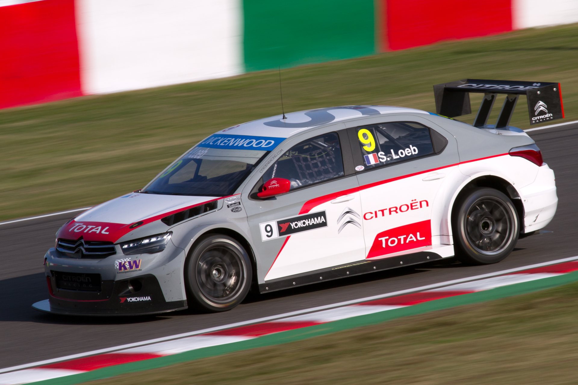 World Touring Car Championship 2014 Race of Japan: Sébastien Loeb (Citroën)